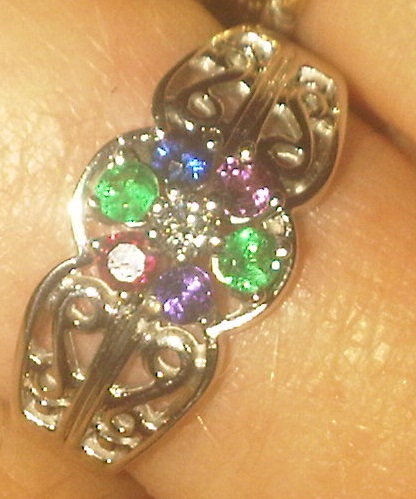 A dearest ring. Diamond in center, Emerald, Amethyst, Ruby, Emerald, Sapphire, Tourmaline